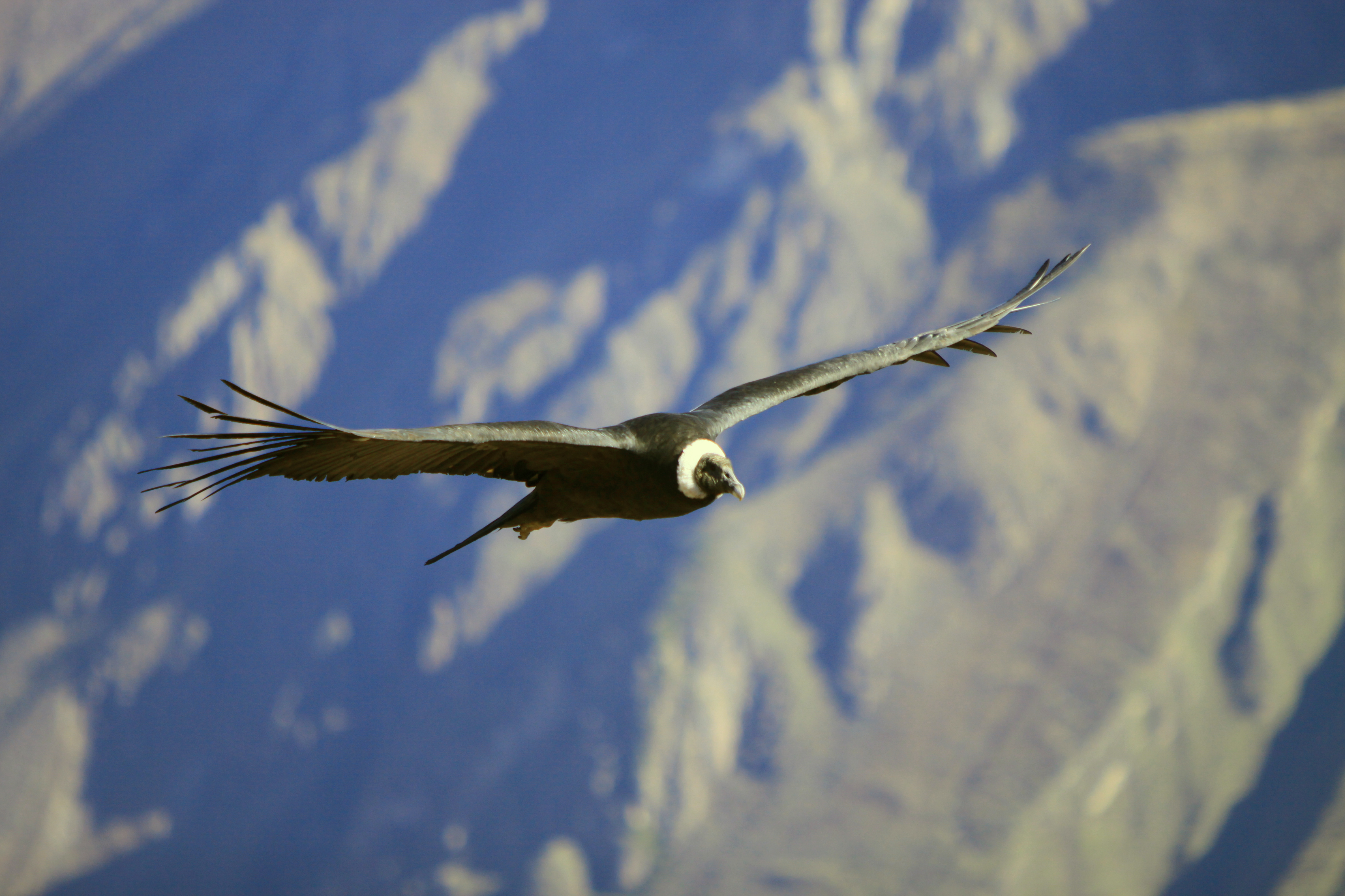 Please, have this description accessible to all by translating it in different languages.